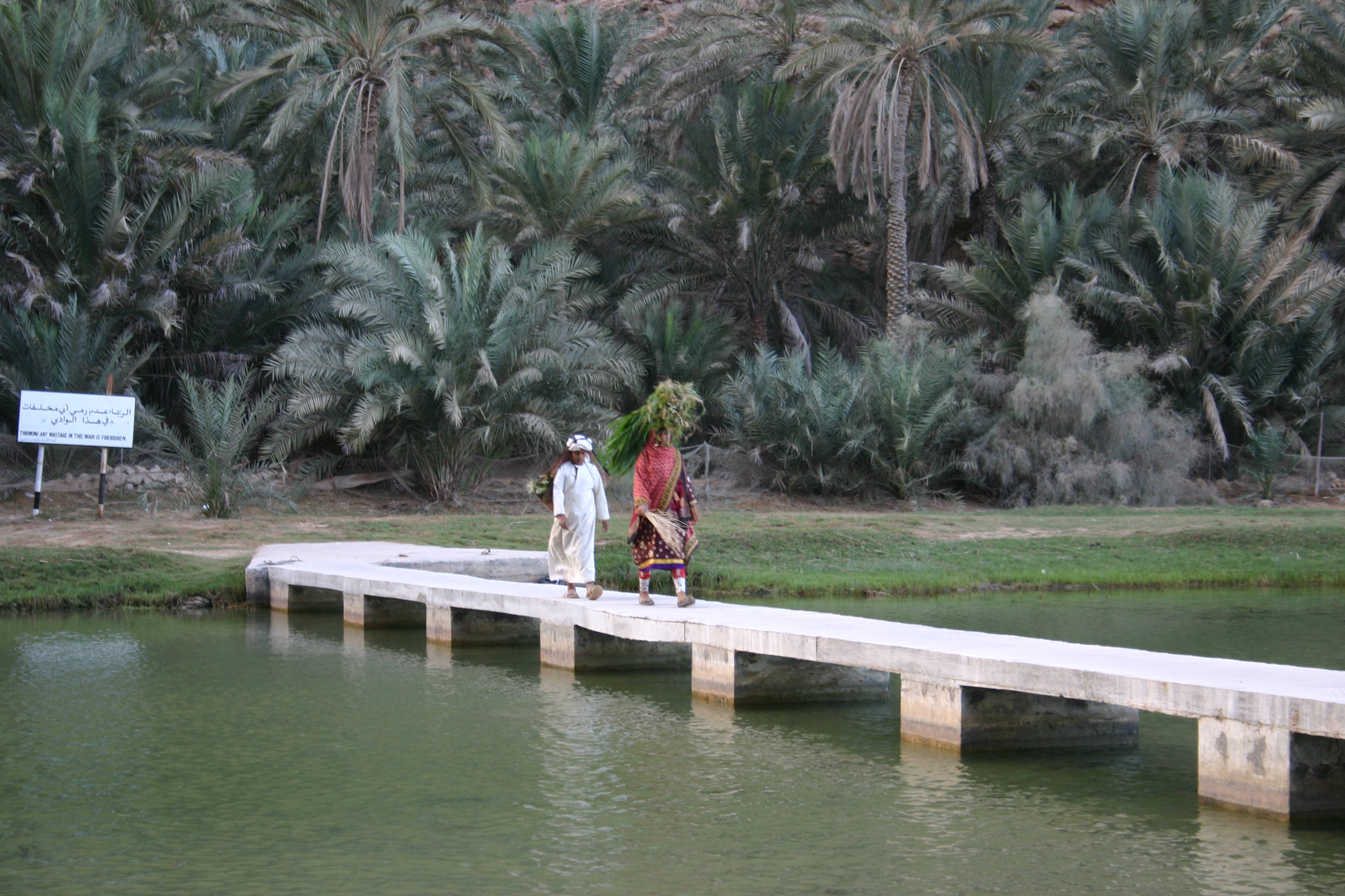 Wadi Shab, Oman, 2004. Photo by Bertil Videt